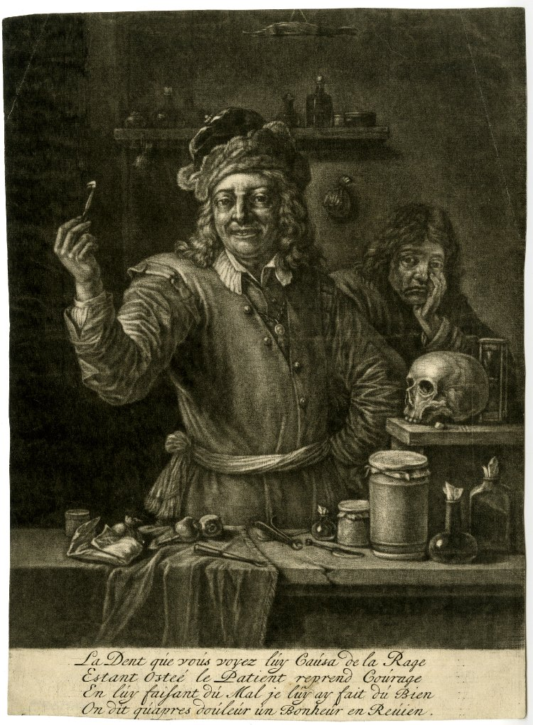 Jan van der Bruggen (1649–c.1699) - Flemish Baroque painter and engraver. "Dentist" After David Teniers the Younger